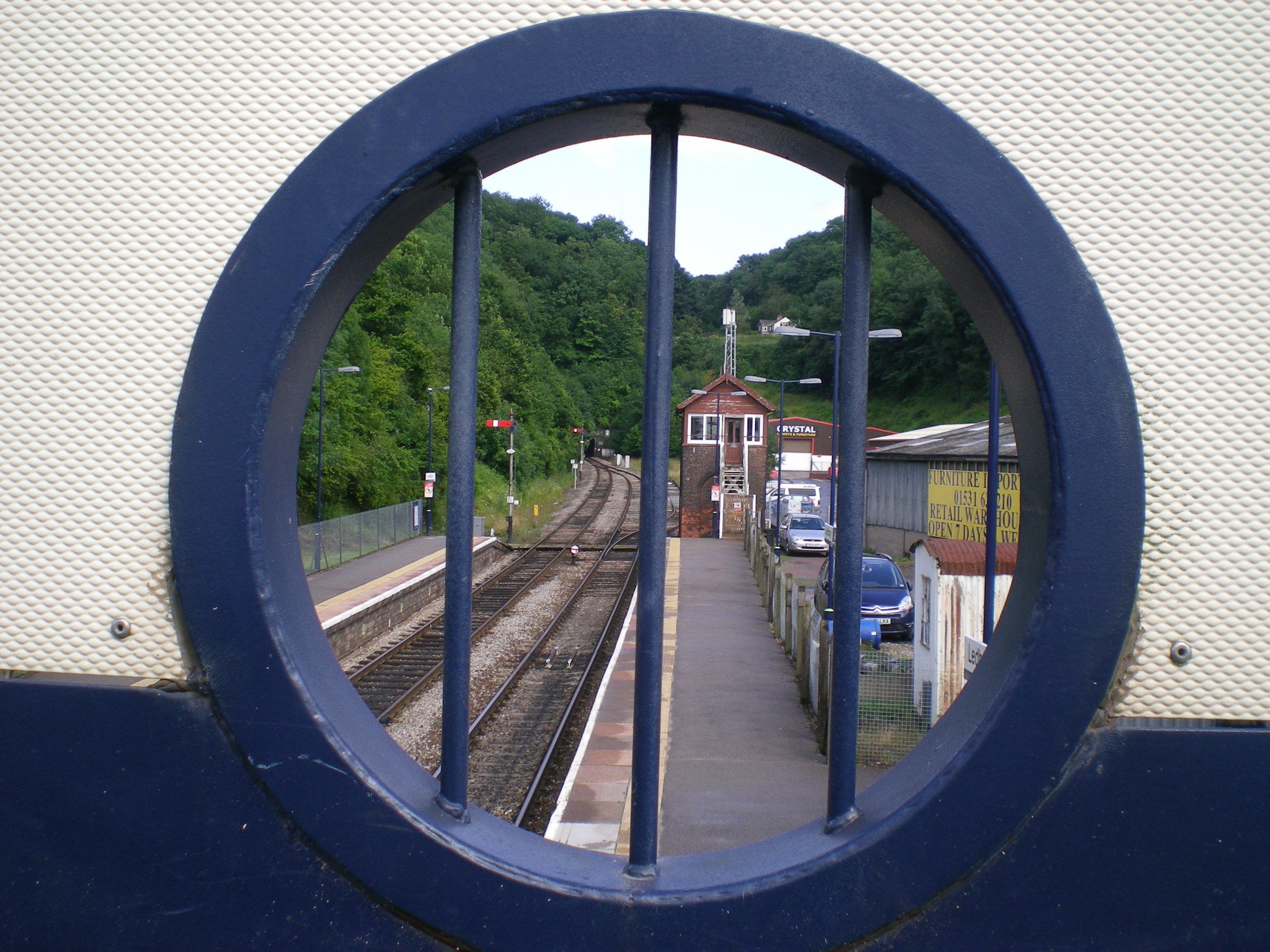 The view east from the window on the footbridge at Ledbury Station, Ledbury, Herefordshire.